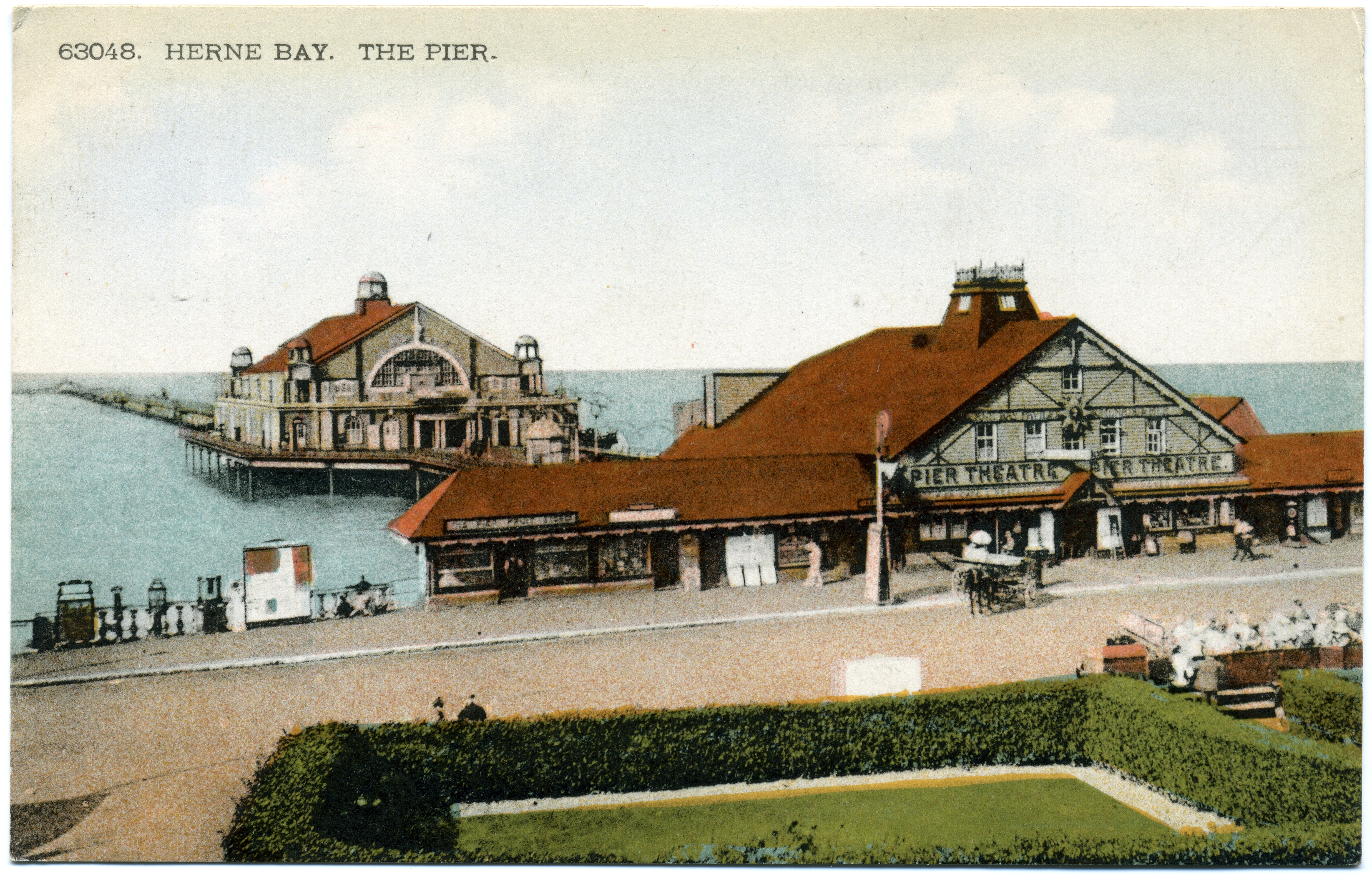 Hand-coloured postcard photo taken 1910-1928 showing the third Herne Bay Pier which was built 1899. The card is postmarked 15 August 1928, and the wooden theatre entrance buildings, seen in this photo, burned down on 9 September 1928. However the photo was almost certainly taken before 1914, going by the style of costume and charabanc in the foreground. The Grand Pier Pavilion (big building on pier) was built 1910.